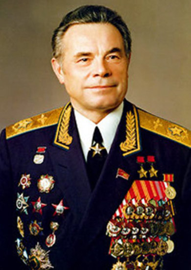 Chief Marshal of Aviation Pavel Kutakhov